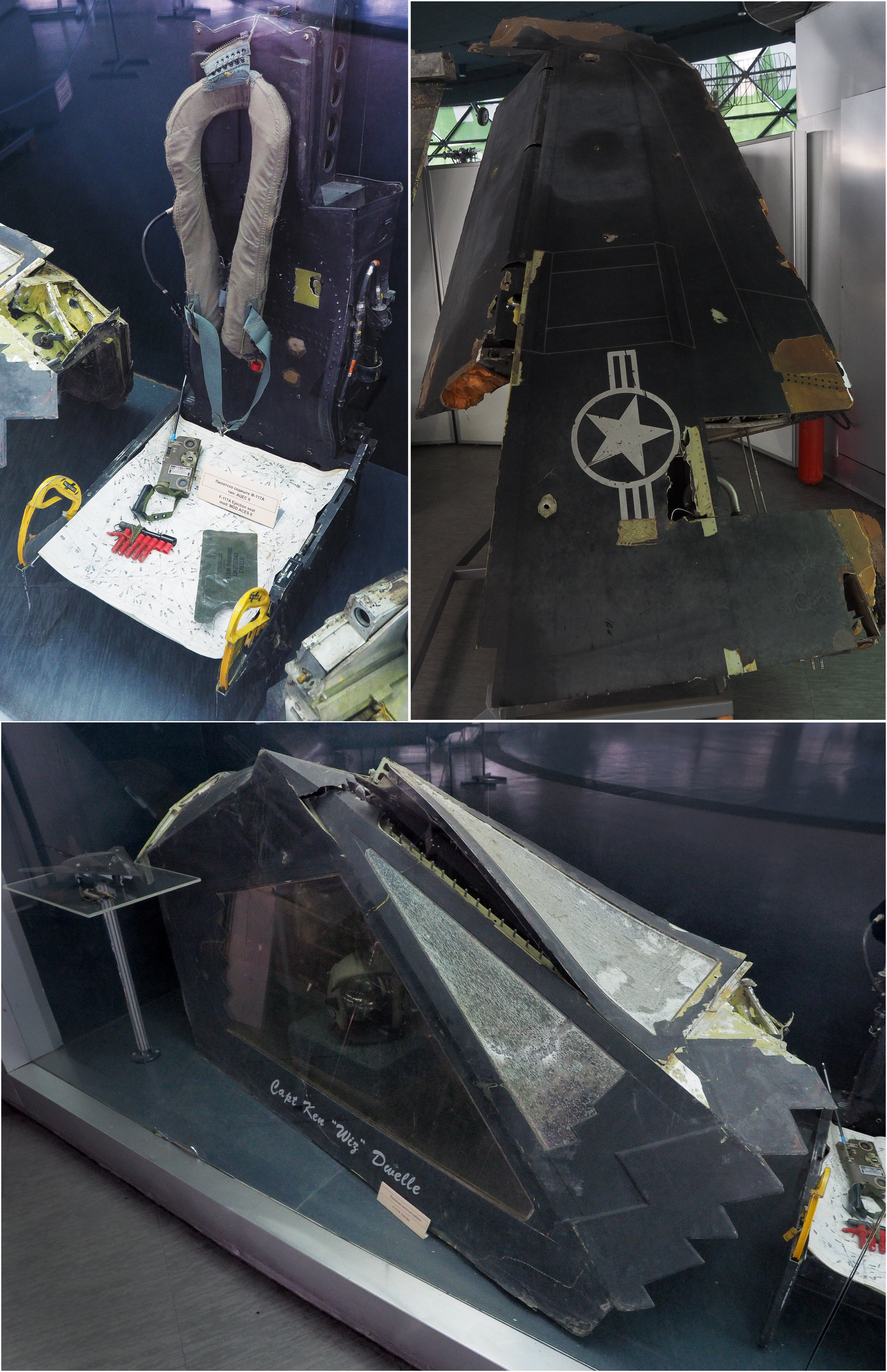 Canopy, ejection seat and wing of F-117, serial number 82-0806, shot down over Serbia in 1999; Belgrade Aviation Museum, Serbia Srpski (latinica): Delovi aviona F-117 oborenog iznad Srbije 1999. Muzej vazduhoplostva u Beogradu, Srbija